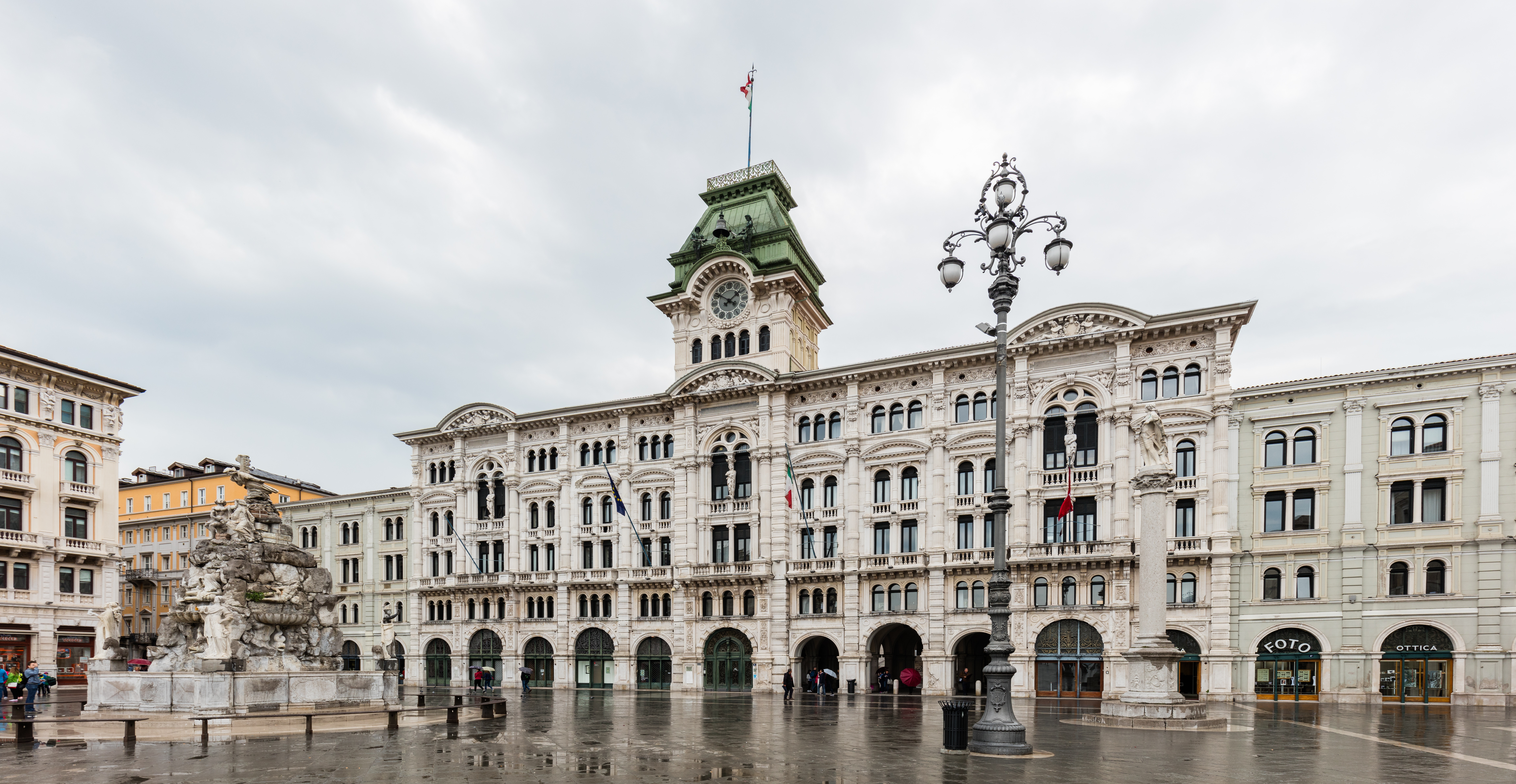 City hall, Trieste, Italy